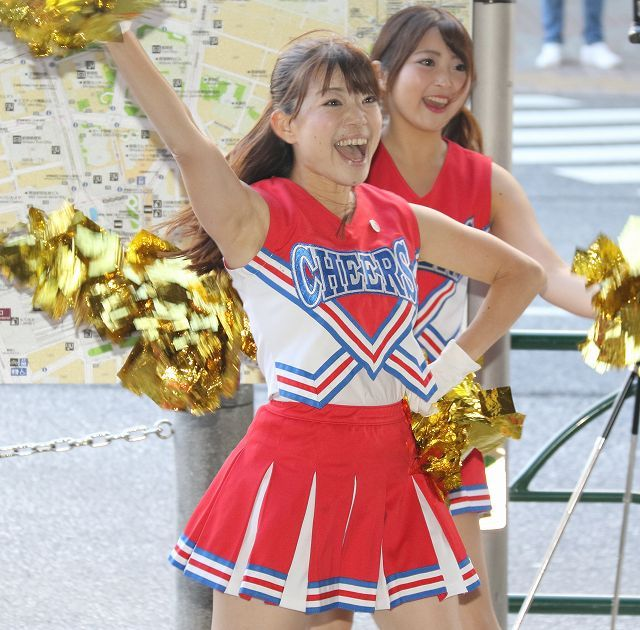 朝妻久美（全日本女子チア部☆・都内にて）